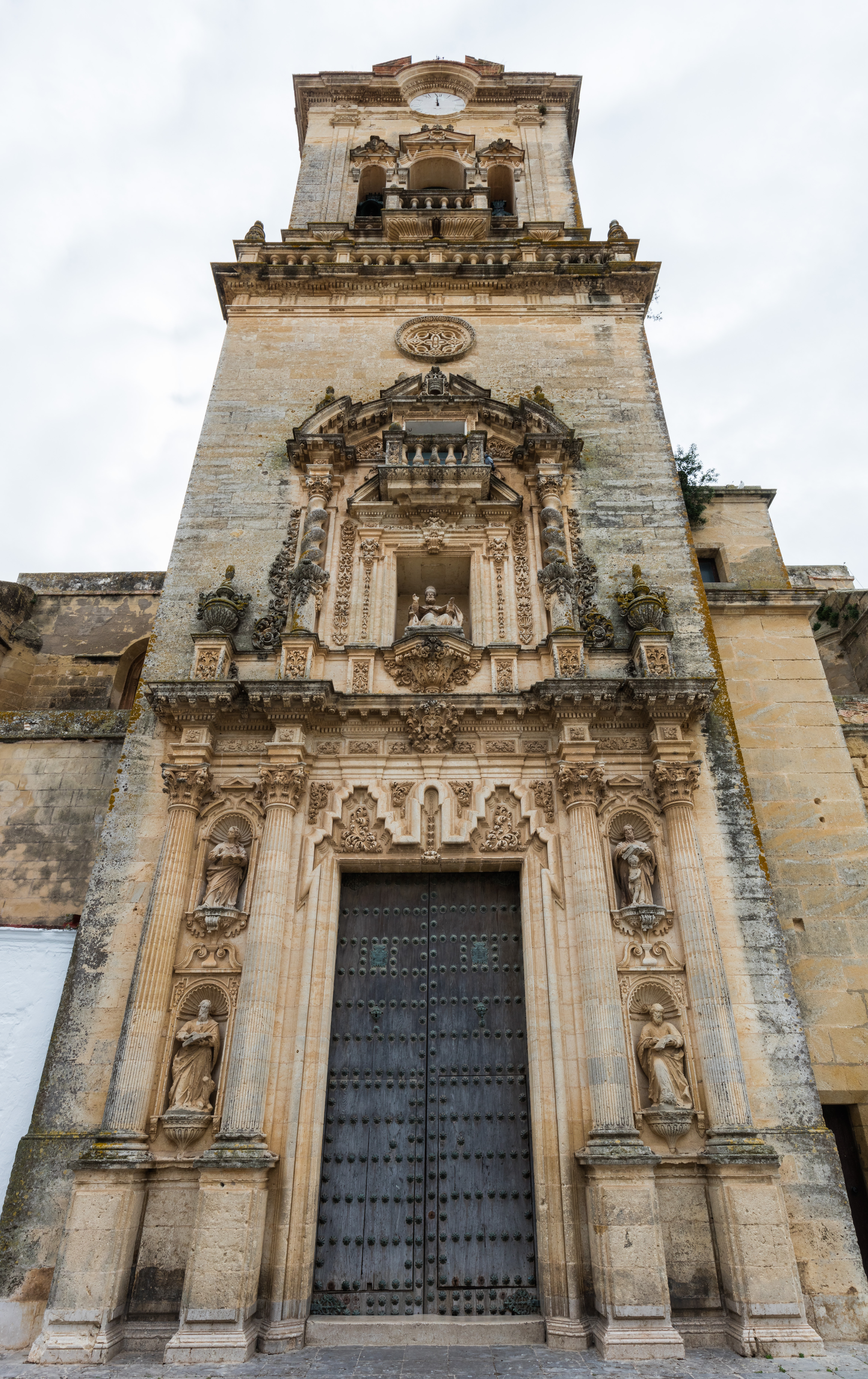 Church of San Pedro, Arcos de la Frontera, Cádiz, Spain